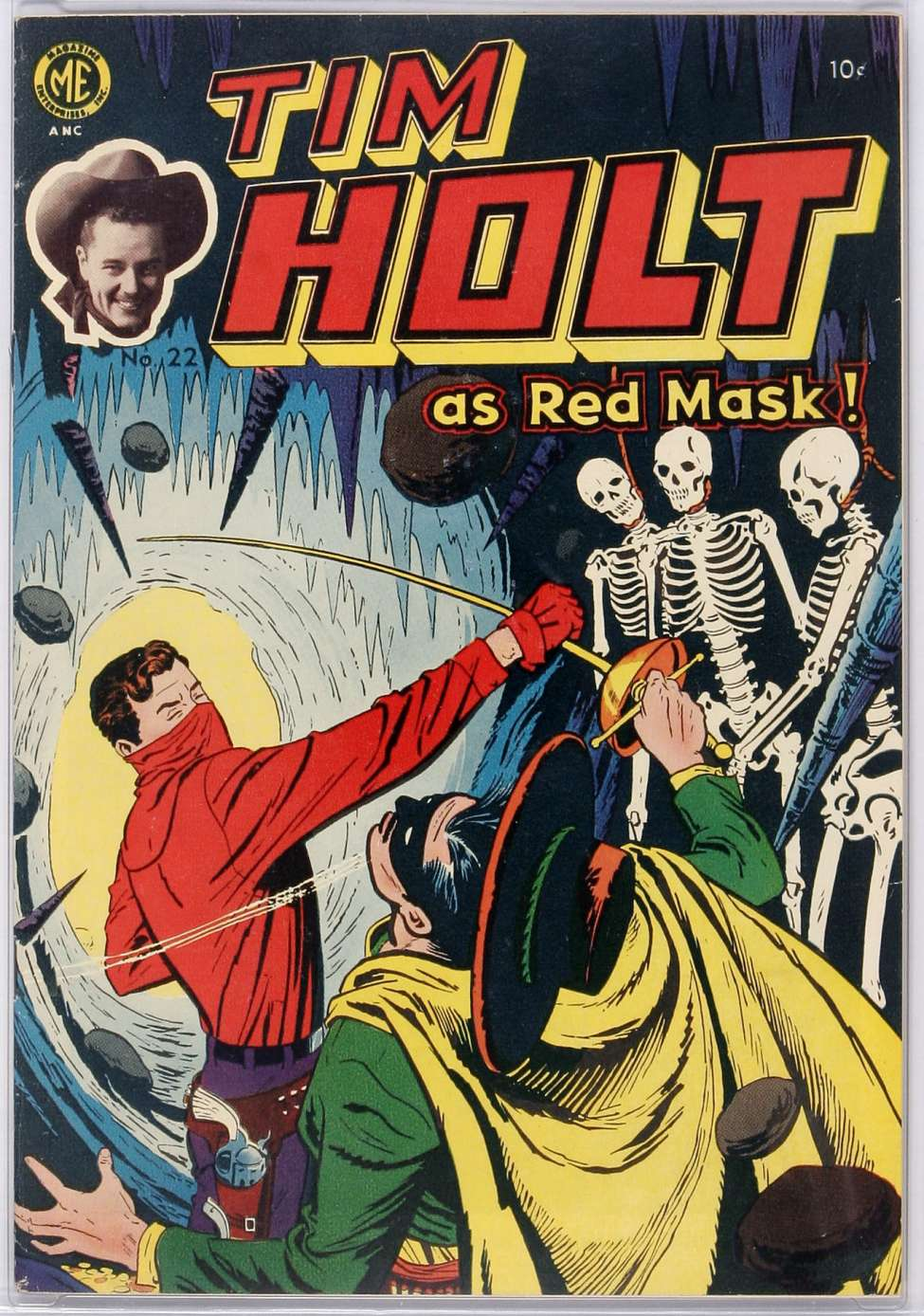 Cover of Tim Holt #22, Magazine Enterprises, Feb-Mar 1951